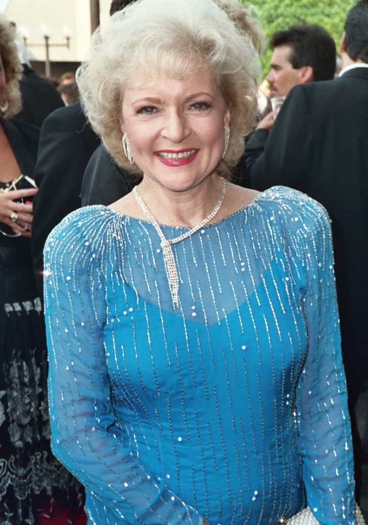 Betty White at the 1988 Emmy Awards.